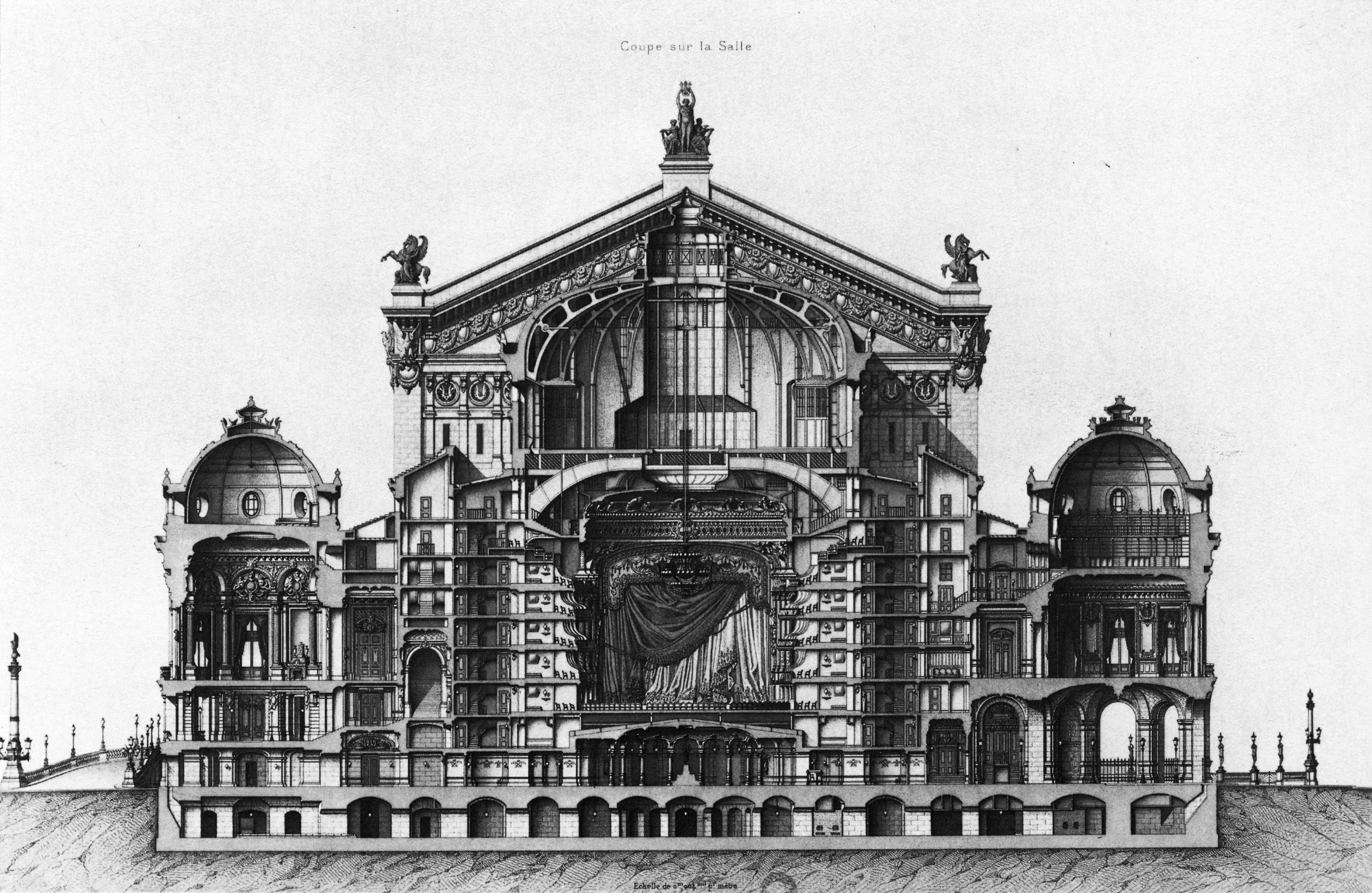 Transverse section at the auditorium and pavilions of the Paris Opera's Palais Garnier